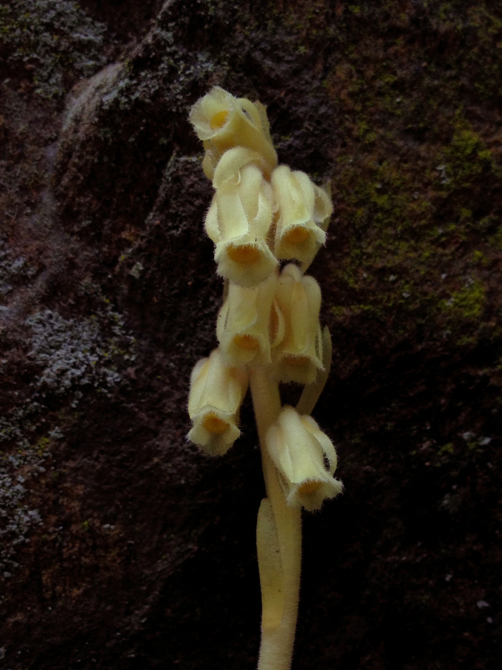 Photo of Monotropa hypopitys in flower. This is a native plant growing wild in Great Falls Park, in Fairfax county Virginia, USA. This species is a member of the Ericaceae family.